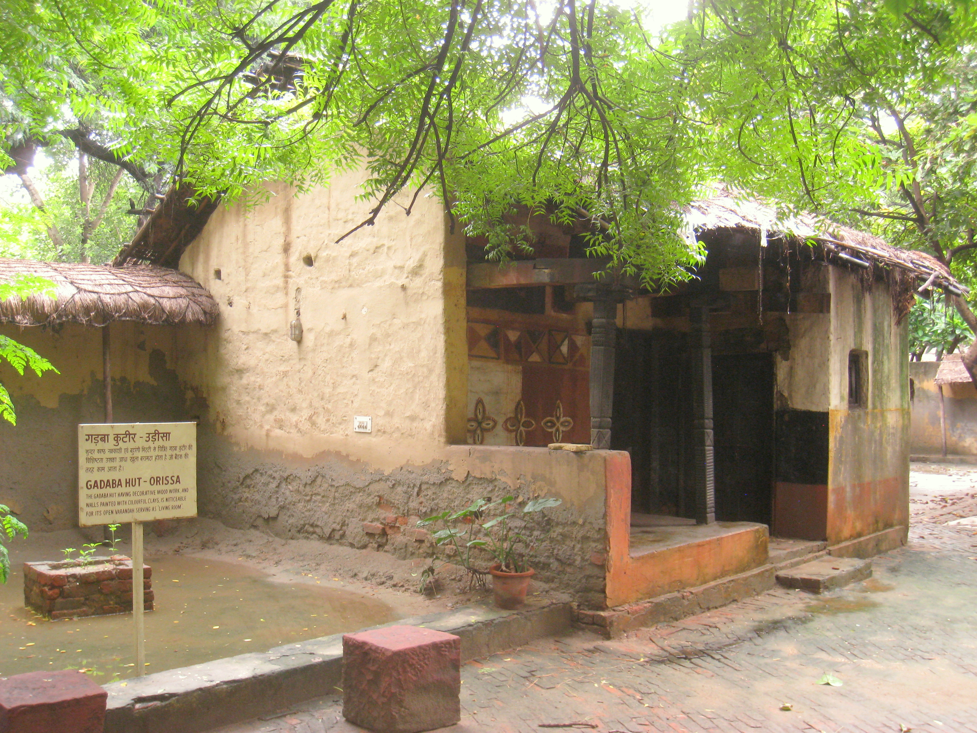 Village complex in Crafts Museum, New Delhi, India.